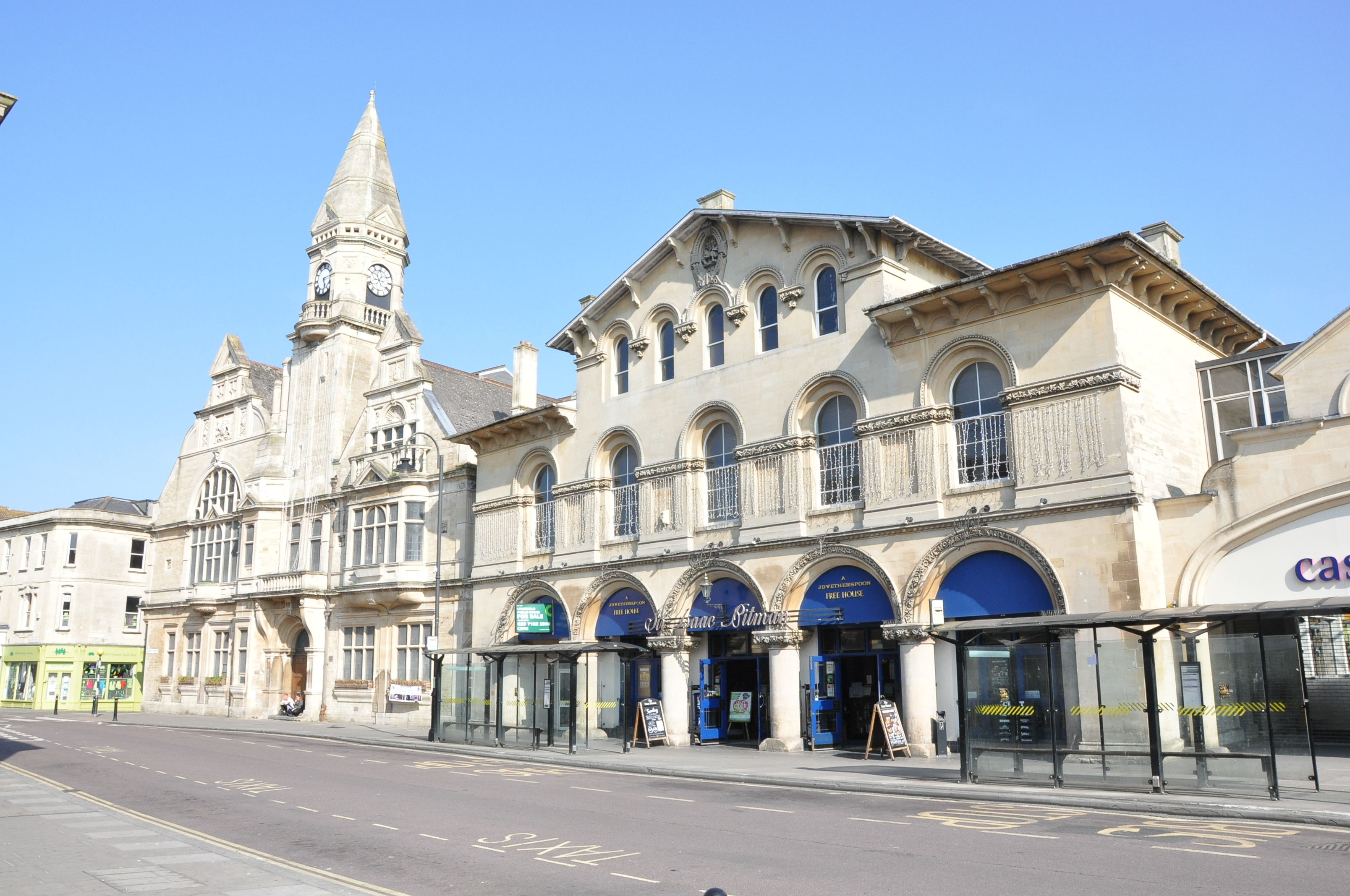 Town Hall, Trowbridge